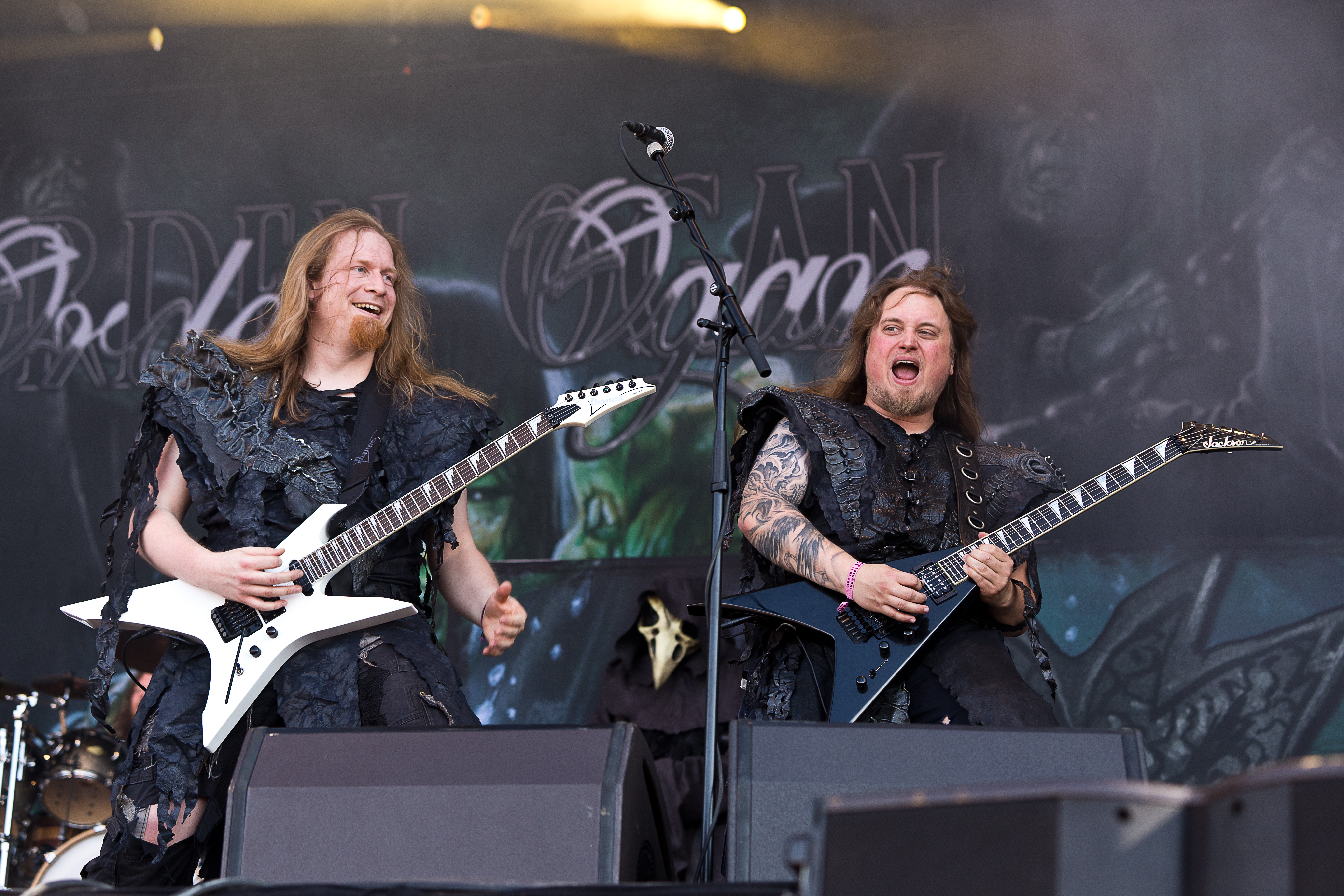 The German power metal band Orden Ogan at the Rockharz Open Air 2015 in Ballenstedt/Germany.